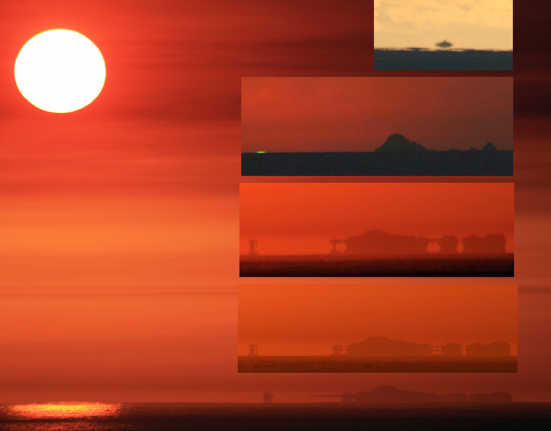 The upper frame is inferior mirage of Farallon Islands, the second frame is no miraged Farallon Islands with green flash on the left hand side. The two lower frames and the main frame is Superior Mirage of Farallon Islands. The superior mirage was going from 3-image mirage (Inverted image between erect ones) to 5-image mirage and to 2-image mirage. Such display is consistent with Fata Morgana. All frames except the upper one were photographed from about 50-70 feet above sea level. The upper frame was photographed from the sea level. The interval between the first and the last frames of the superior mirage was 6 minutes.